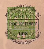 Fragment of a postal card (or pre-paid enveloppe) of Austria, with special cancellation (Alpen Verein) Wien 101, District 15/1 (Westbahnhof) in 1918, 5 heller design of 1916